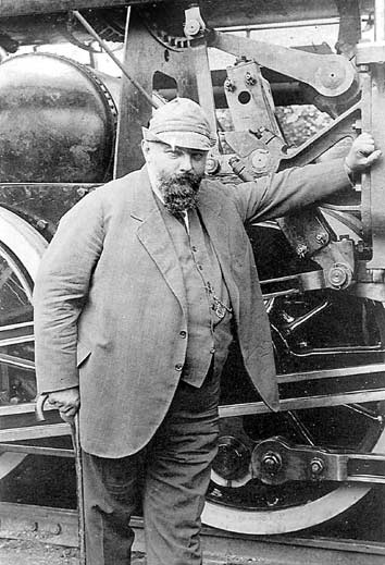 Yury Vladimirovich Lomonosov (Russian: Юрий Владимирович Ломоносов 24 April 1876 – 19 November 1952) was a Russian railway engineer and a leading figure in the development of Russian Railways in the early 20th century. He was best known for design and construction of the world's first operationally successful mainline diesel locomotive, which was completed in 1924 and went into service in 1925